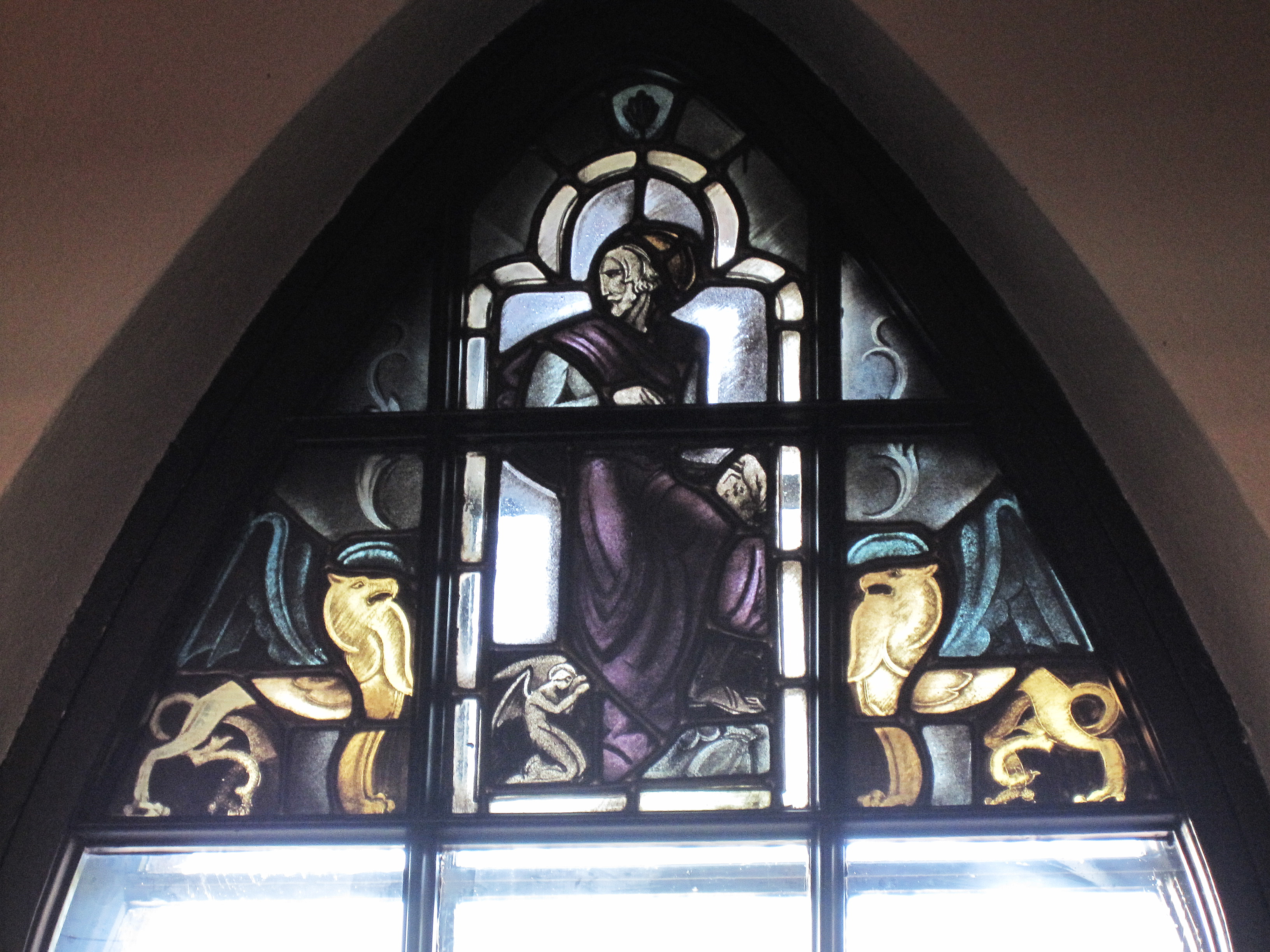 Saint George Church in Mariehamn, Åland, Finland